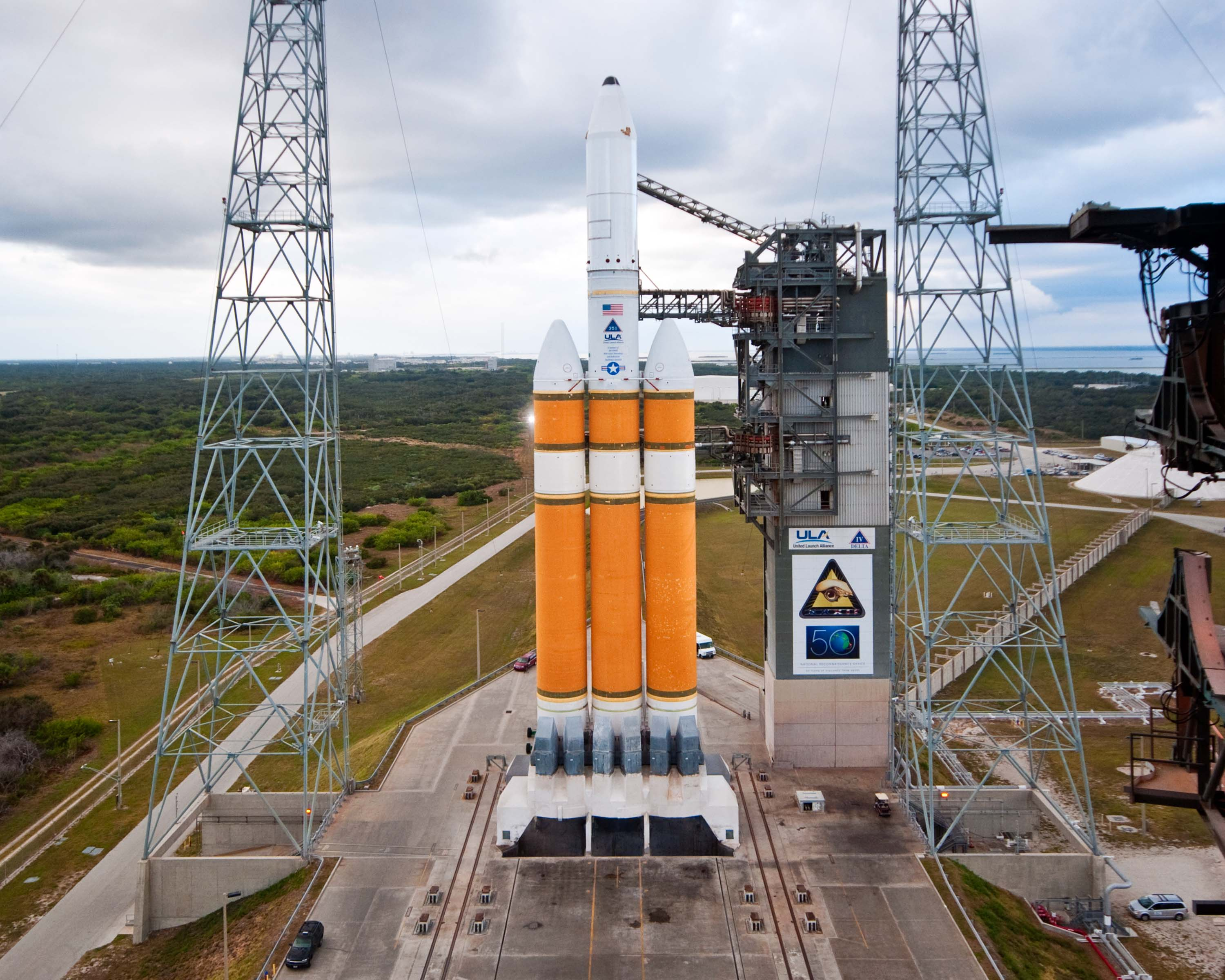 NROL-32 (believed to be an Advanced Orion SIGINT satellite) prepared for launch on a Delta IV Heavy rocket